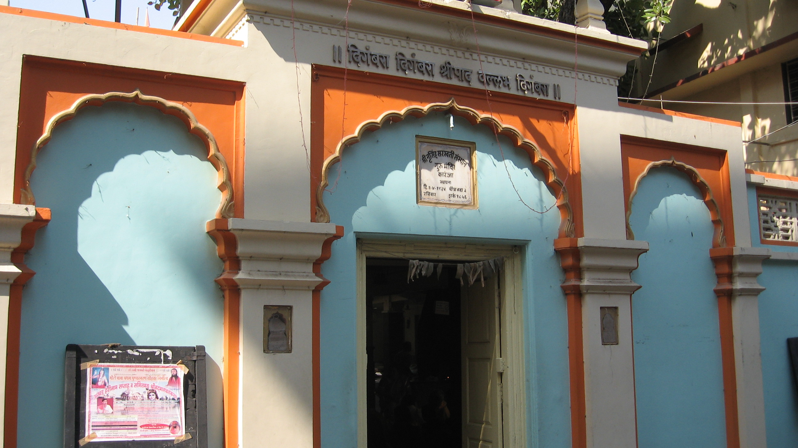 Datt Mandir Main gate at Karanja Lad in Washim district, Maharashtra, India